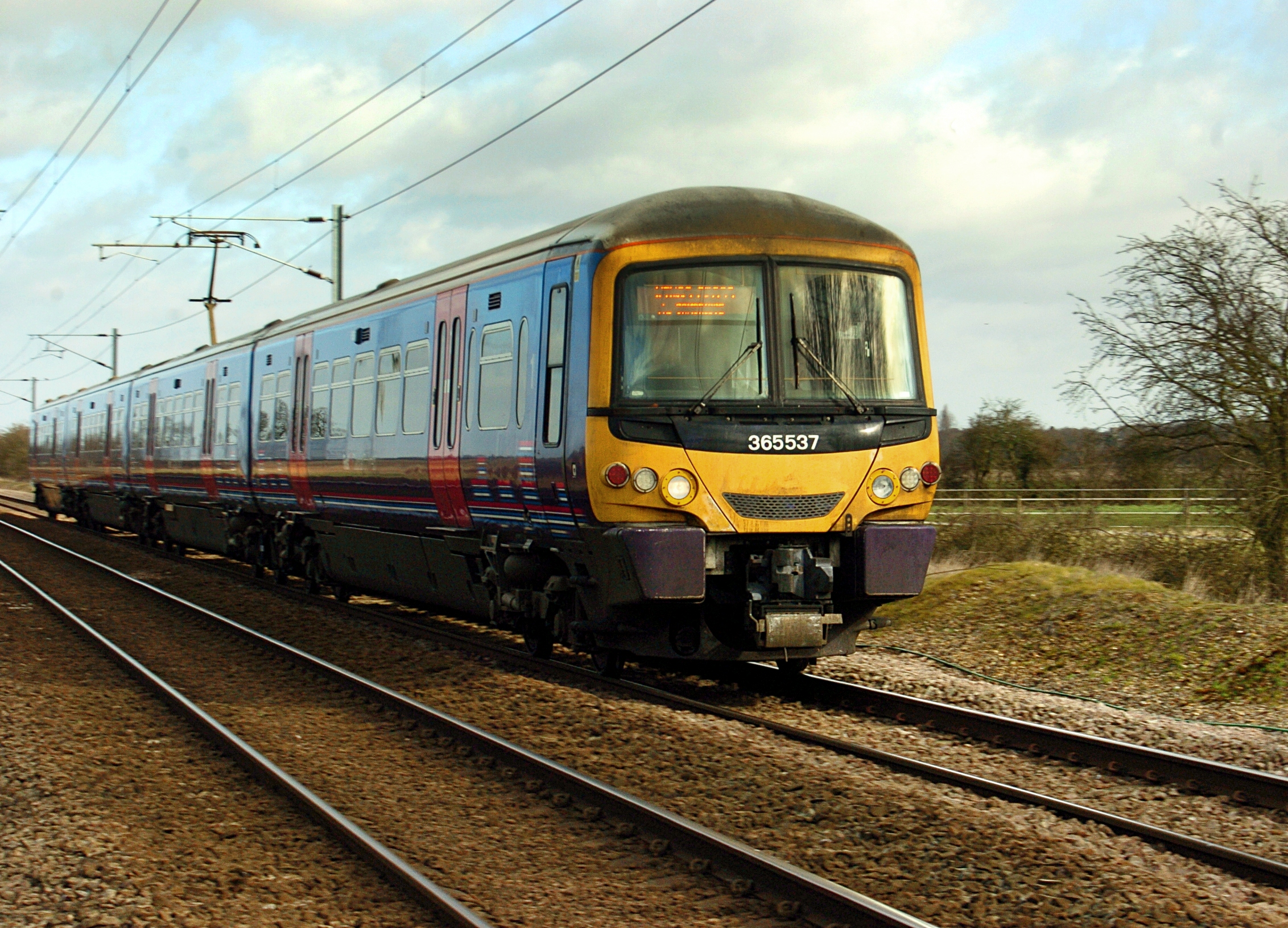 A British Rail Class 365 is about to approach a small, usually-locked-for-vehicles level crossing on the Fen Line near Runcton Holme in Norfolk.